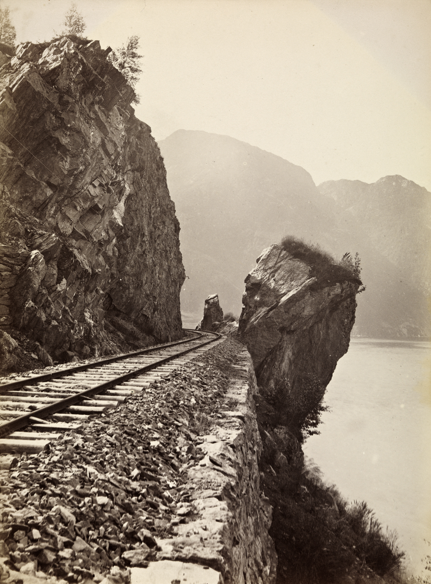 Tittel / Title: 510. Vossebanen, Parti mellem Tr. og Vaksdal Dato / Date: 1880-1890 Fotograf / Photographer: Axel Lindahl (1841-1906) Sted / Place: Trengereid, Vaksdal, Hordaland Eier / Owner Institution: Nasjonalbiblioteket / National Library of Norway Lenke / Link: Bildesignatur / Image Number: bldsa_AL0510